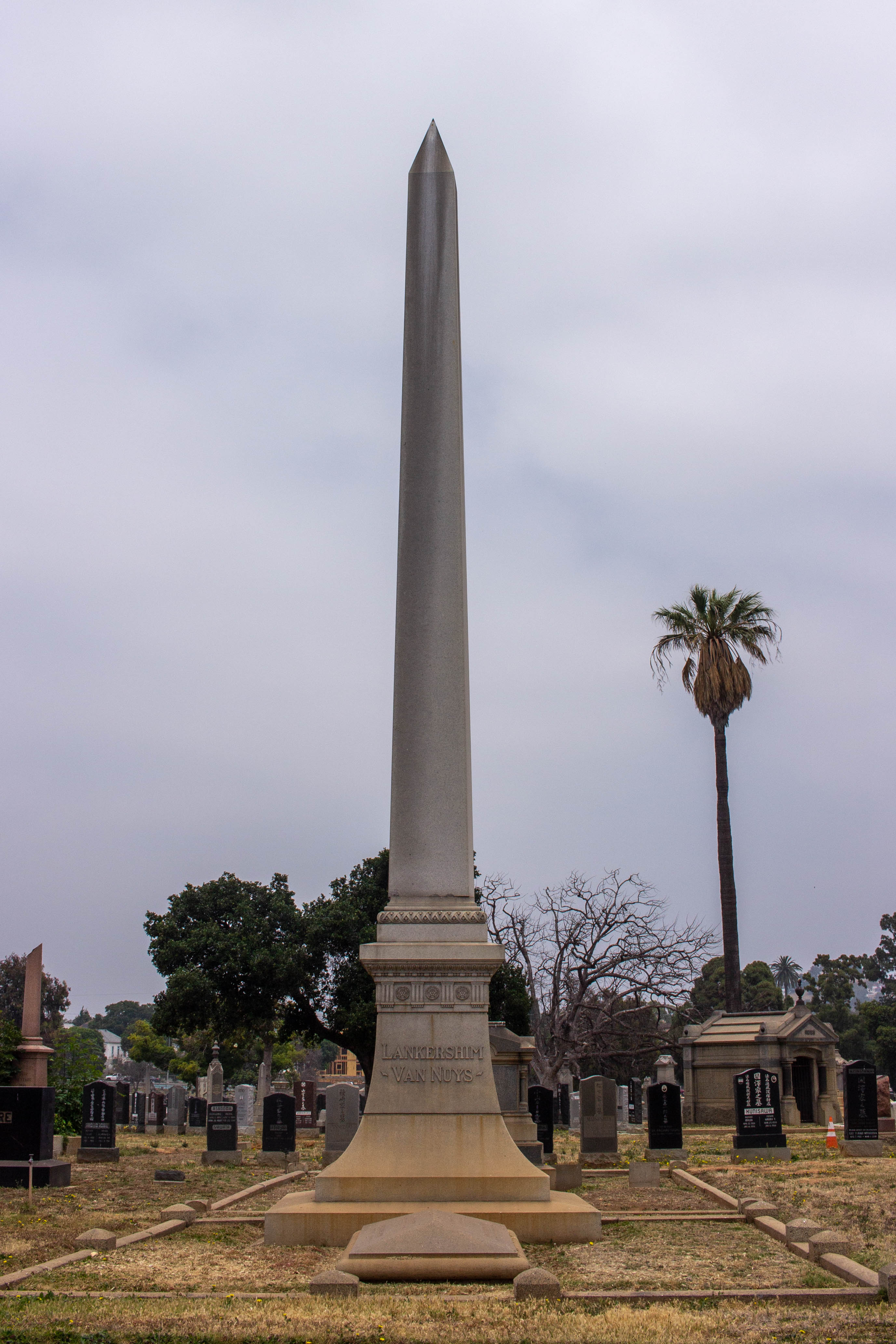 Mr. Van Nuys' grave in Evergreen Cemetary, Los Angeles.